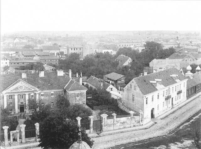 View for a Kopernik Square in Włocławek on photograph by Bolesław Sztejner, made in 1896 year. On the photograph there is a nowadays Diocese Museum (on the left) and non-existent, firts Orthodox church in Włocławek (last building on the right side).